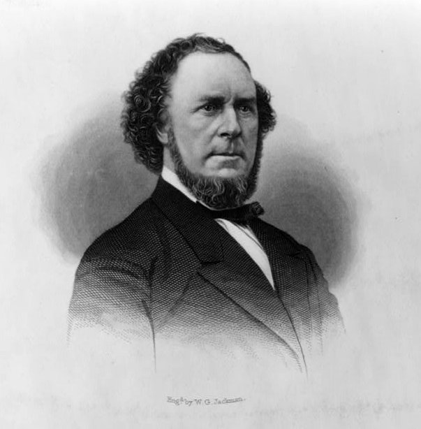 Alexander Long, United States Congressman from Ohio